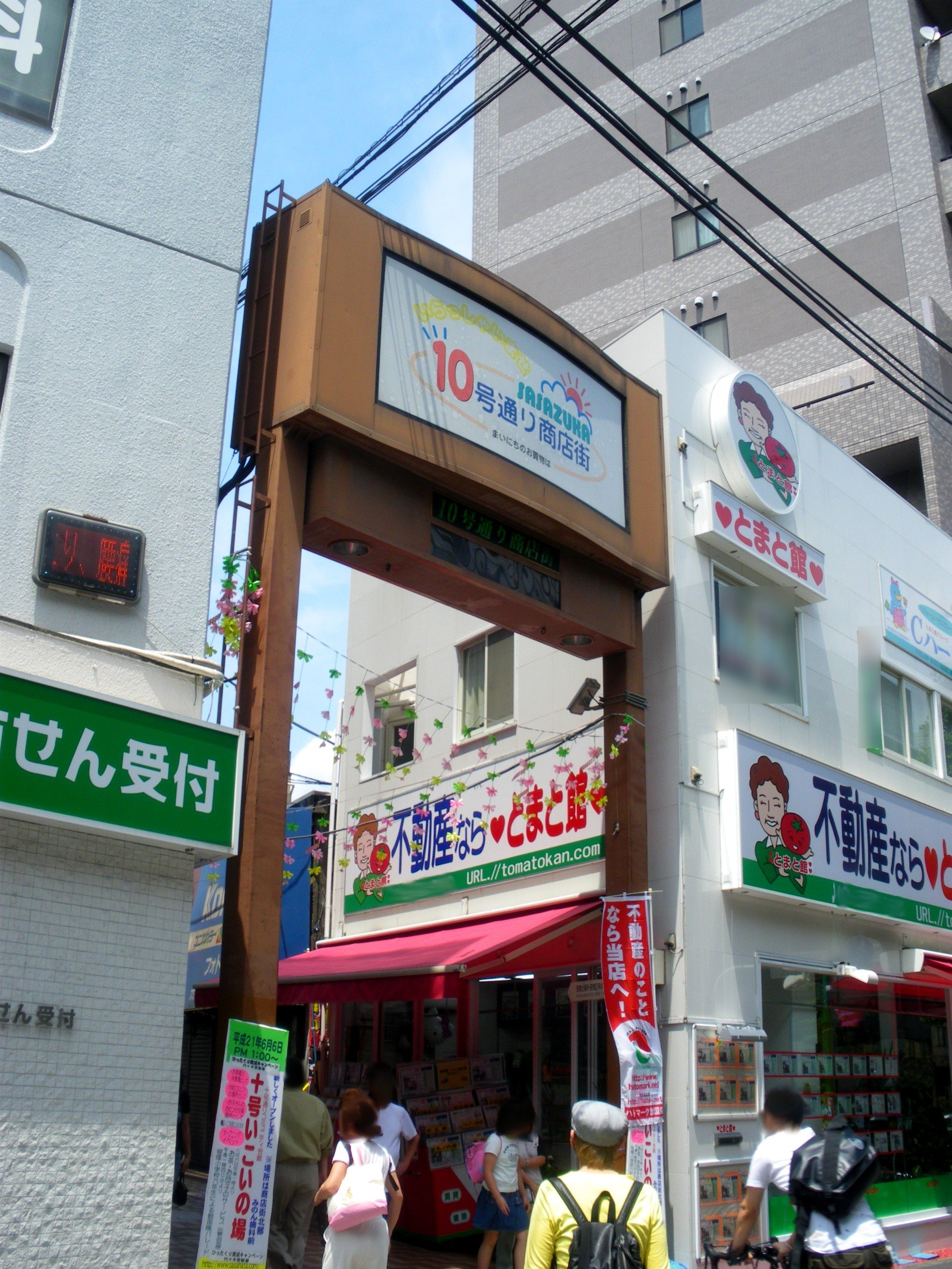 10go dori shopping street(Sasazuka,Shibuya,Tokyo)